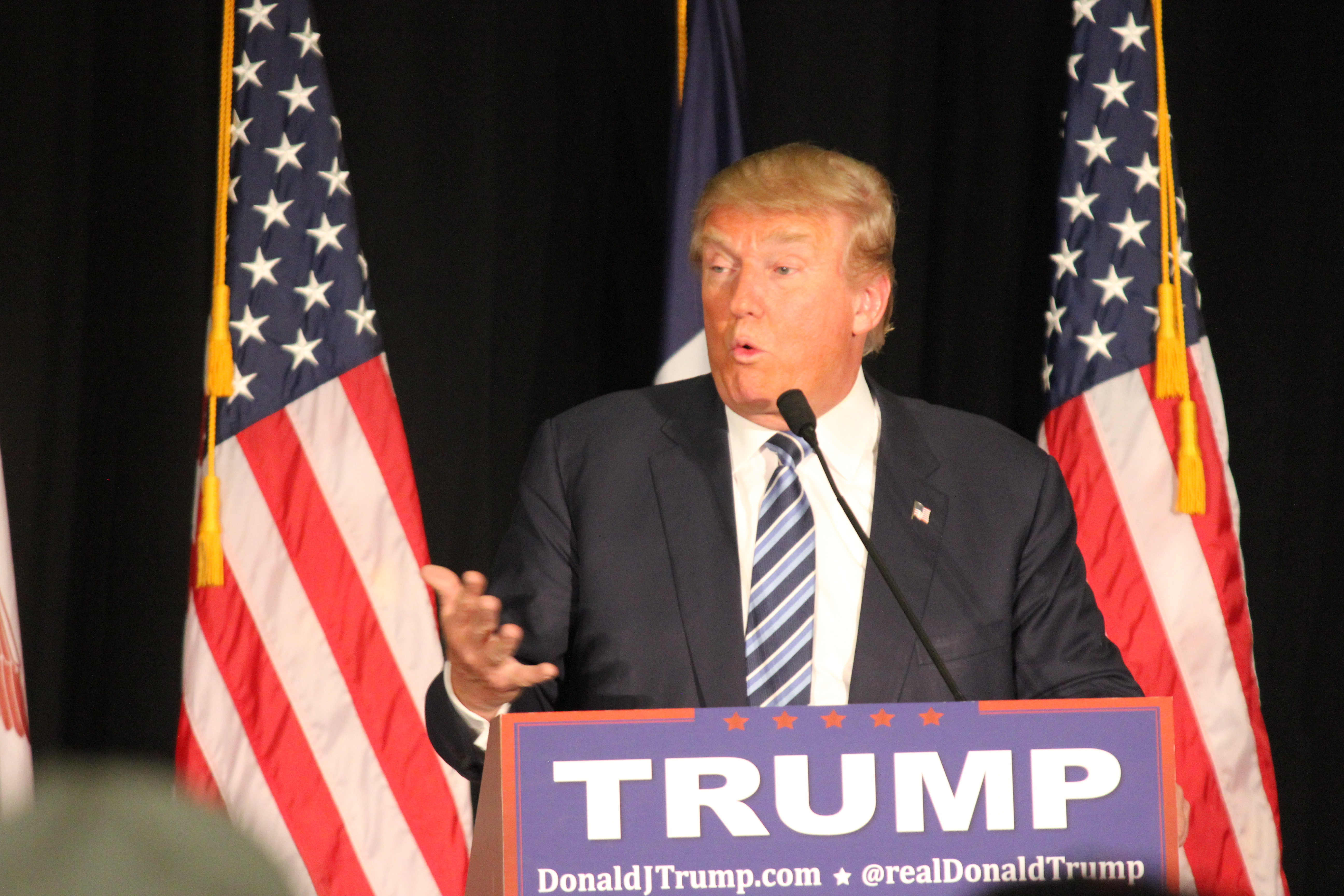 Presidential candidate Donald Trump speaks at a campaign stop at the Mid-America Center in Council Bluffs, Iowa. J. if used elsewhere.